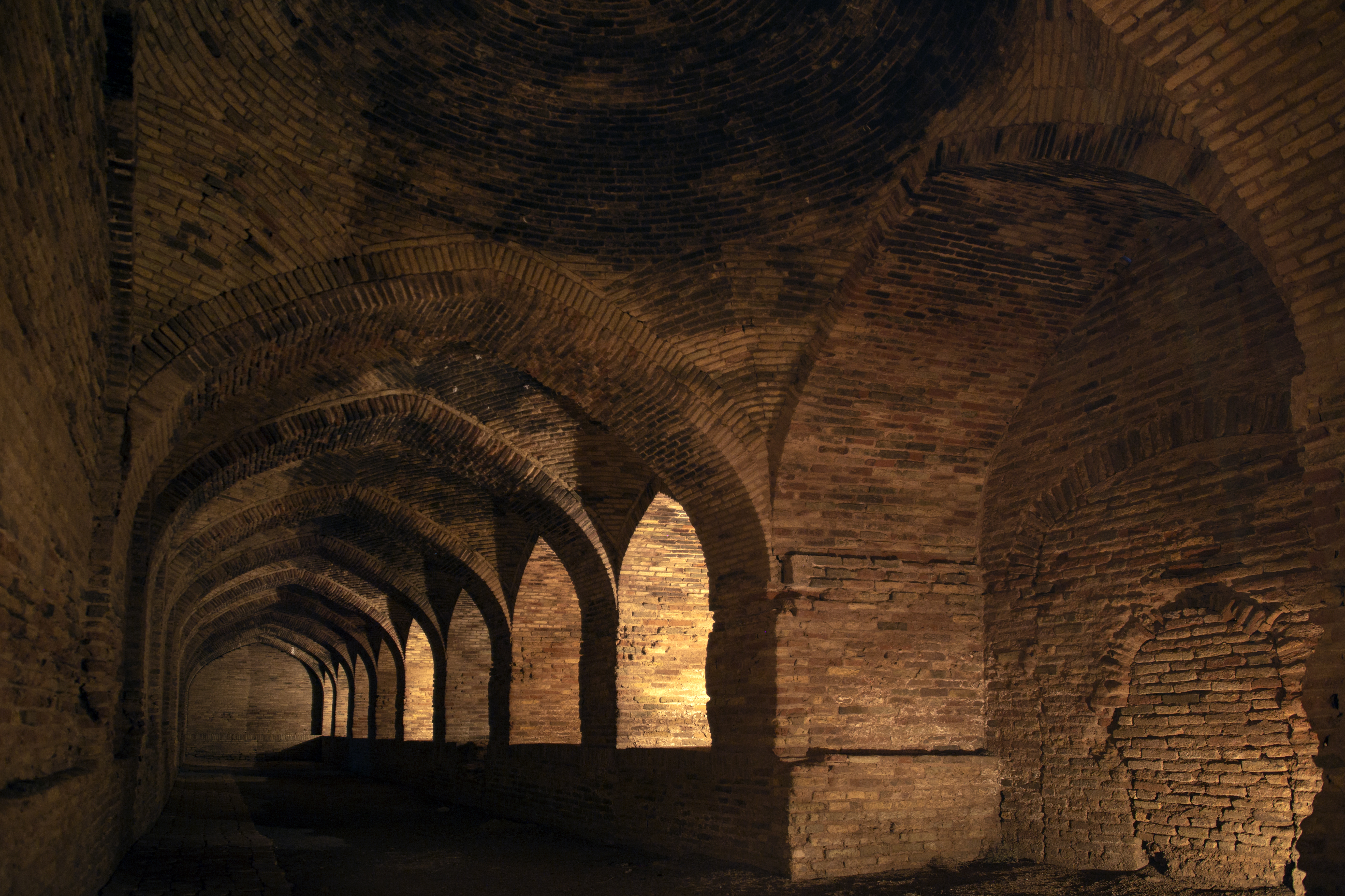 Deir-e Gachin Caravansarai is one of the greatest caravansarais of Iran which is located in the center of Kavir National Park. Its unique qualities is the reason it is called “Mother of Iranian Caravansarais”. It is located in the Central District of Qom County, 80 kilometers north-east of Qom (60 kilometers into Garmsar Freeway) and 35 kilometers south-west of Varamin. (Photo by: Mostafa Meraji, wiki loves monuments 2018)